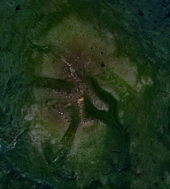 Satellite image of the Level Mountain Range in northwestern British Columbia, Canada.